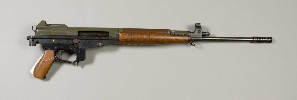 GRAM 63 kal 6,5mm 1962 401. A prototype battle rifle that was in trials to replace the Ljungman Ag m/42 semi-automatic rifle in Swedish Army service and was manufactured by the Carl Gustav corporation.